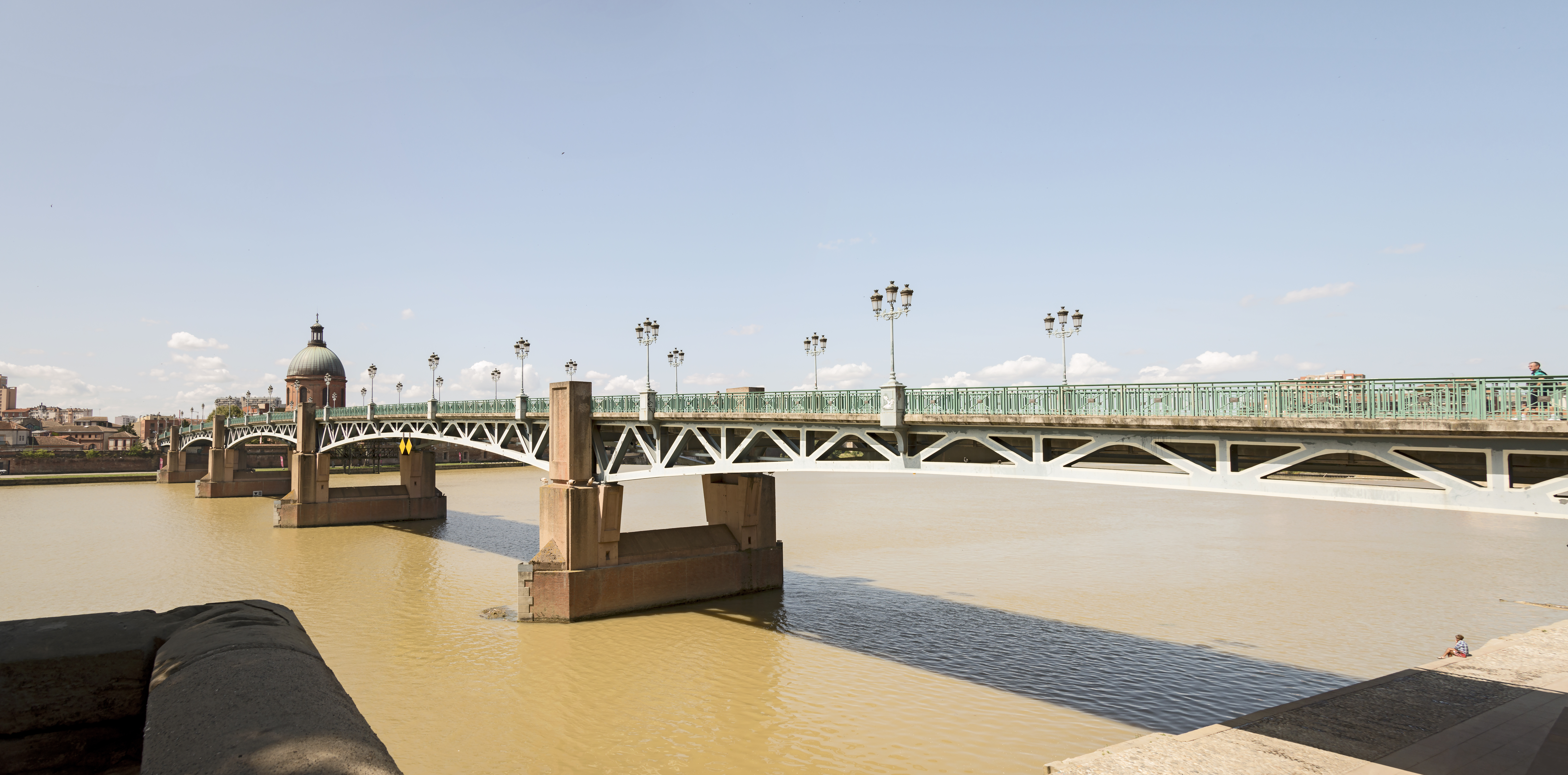 Saint Pierre bridge in Toulouse (1849 et 1987).